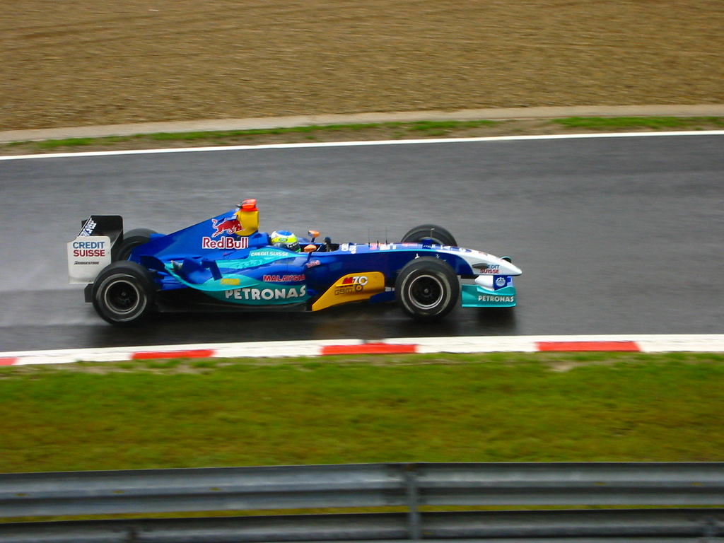 Giancarlo Fisichella driving for Sauber at the 2004 Belgian Grand Prix.